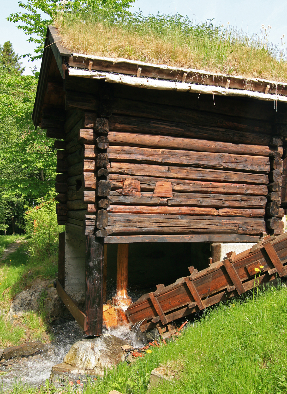 Watermill. Ringerike, Norway.